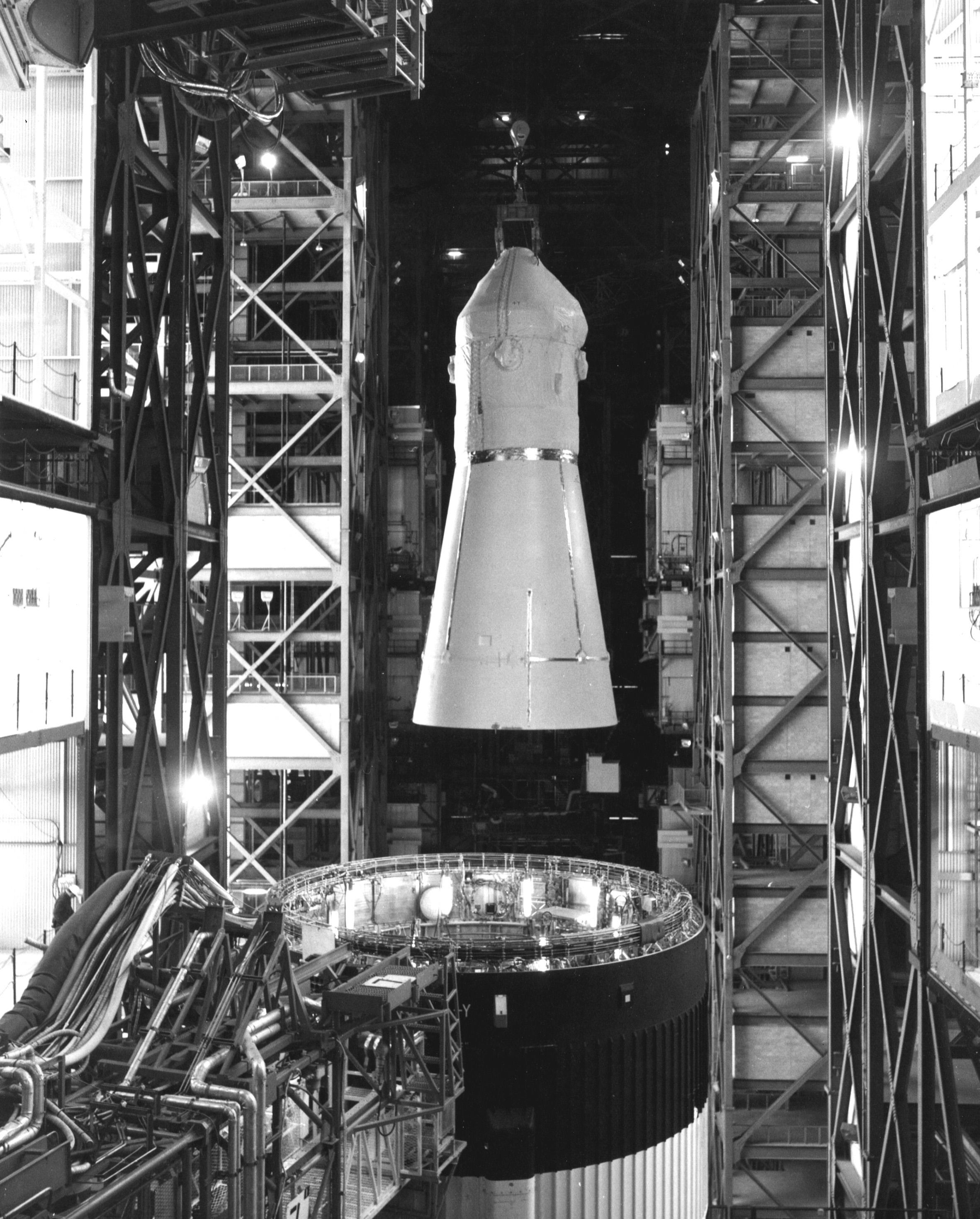 KENNEDY SPACE CENTER, FLA. -- The command/service module for the Skylab Rescue Vehicle was removed from its Saturn IB rocket in the Vehicle Assembly Building here today. The Skylab Program ended with splashdown of the Skylab 4 crew in the Pacific Ocean Feb. 8, ending the need for the rescue vehicle on Complex 39's Pad B since early December. The SaturnIB/Apollo was returned to the VAB last week and is now being dismantled. The spacecraft is to be taken to the Manned Spacecraft Operations Building in the KSC Industrial Area Feb. 20. Both the spacecraft and rocket will be stored at KSC as backup flight hardware for the Apollo-Soyuz Test Project in 1975.